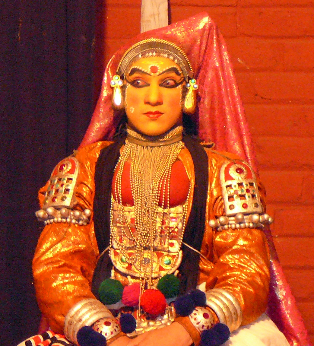 Female character in a Kathakali performance at Thekkady.